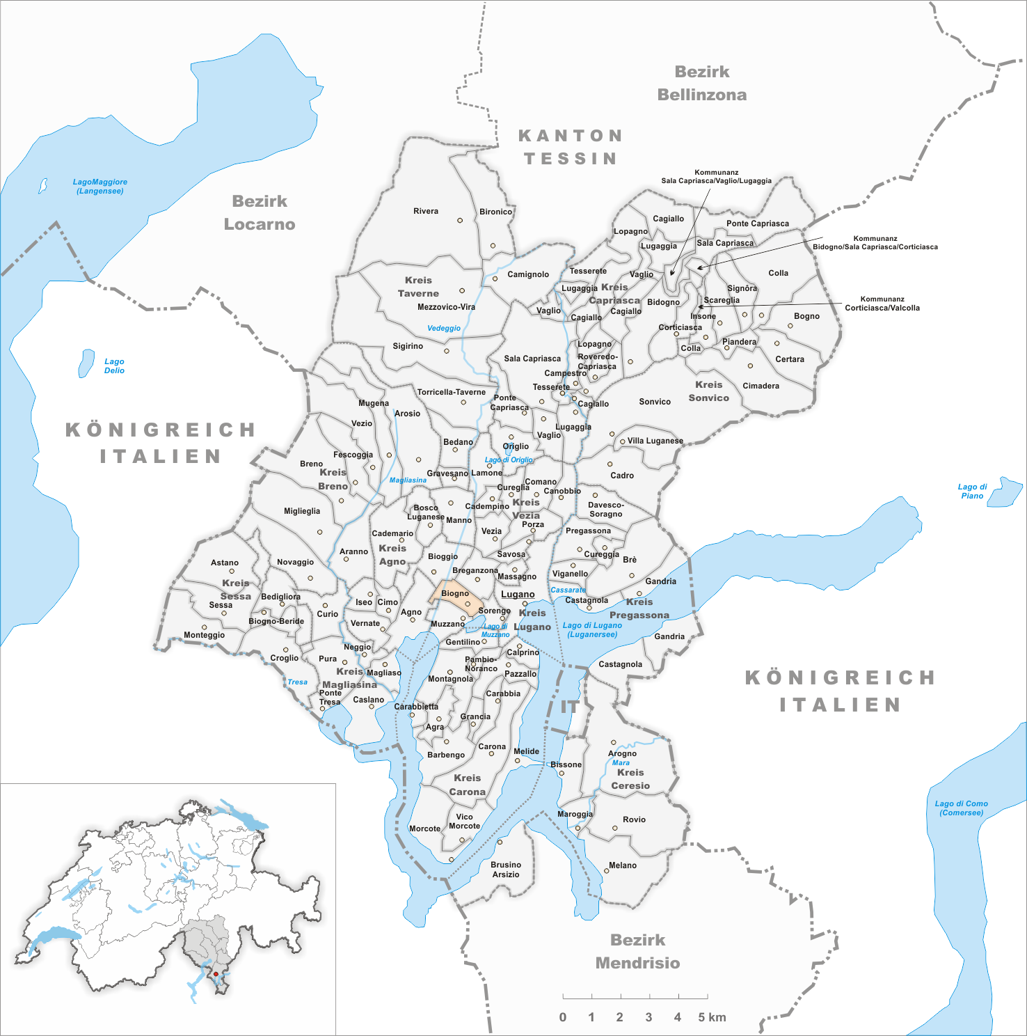 Municipality Biogno Artist: Tschubby